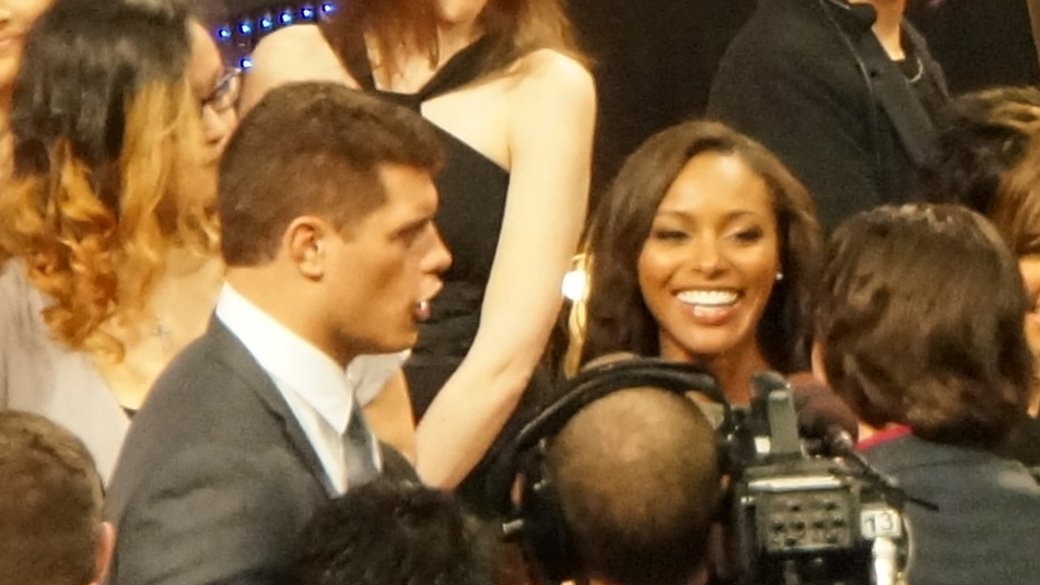 Cody Rhodes (left) and his wife Brandi Reed at the 2014 WWE Hall of Fame ceremony on April 5, 2014. Cropped from original.